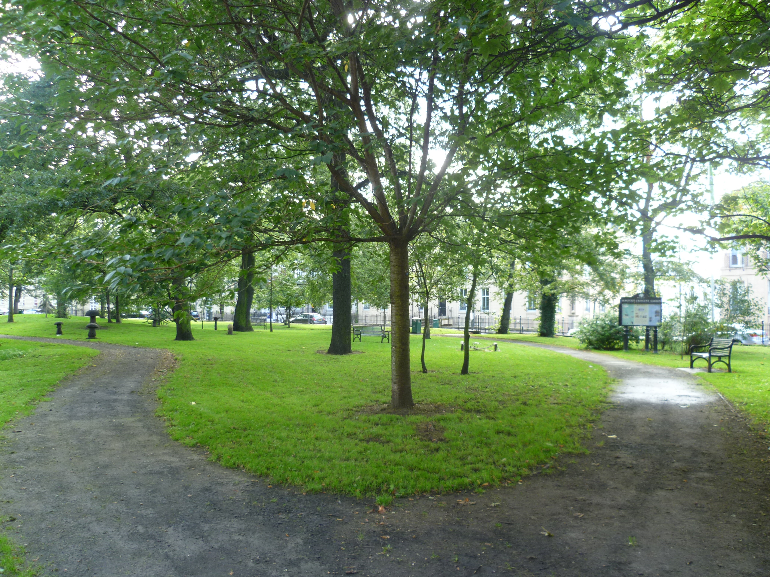 The site of Edinburgh's botanic garden before it moved to Inverleith at some time in the 1820s. In the 1760s, it had replaced the old Physic Garden on the site now occupied by Waverley Station.